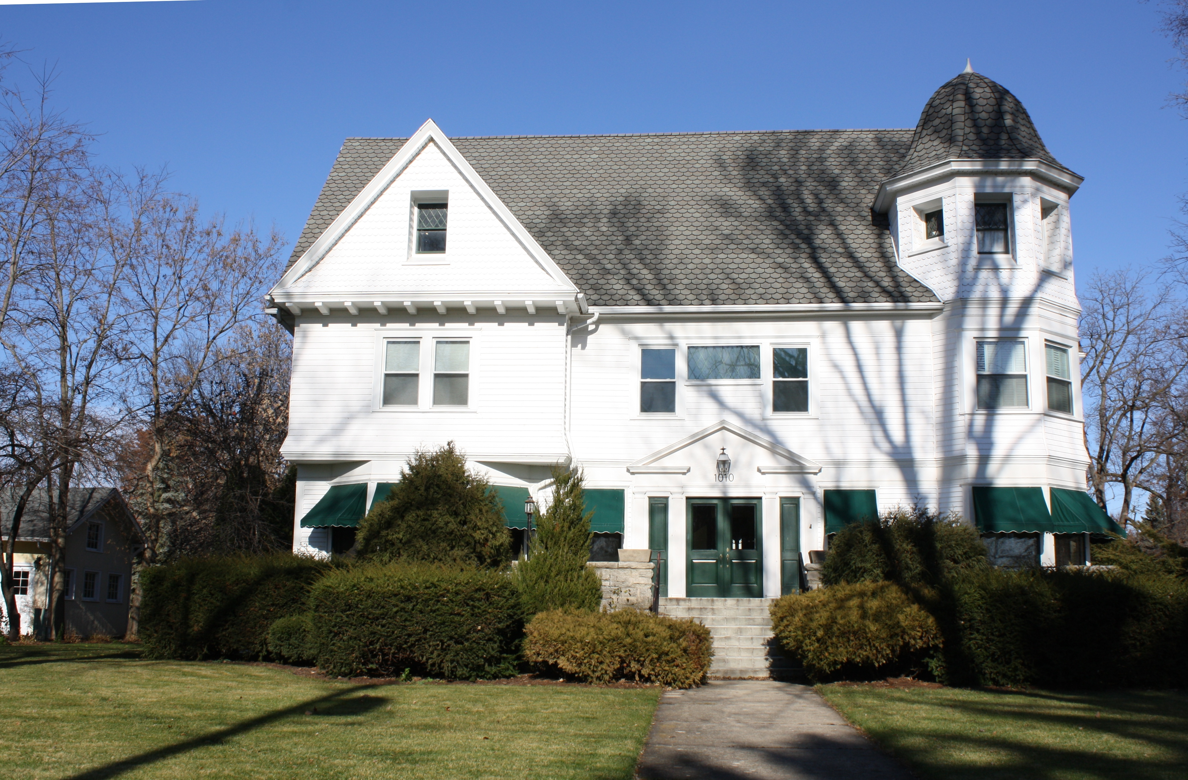 1010 East Forest Avenue in Menasha, Wisconsin 's East Forest Avenue Historic District, listed on the National Register of Historic Places.